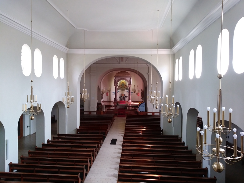 St. Michael (Bürstadt)